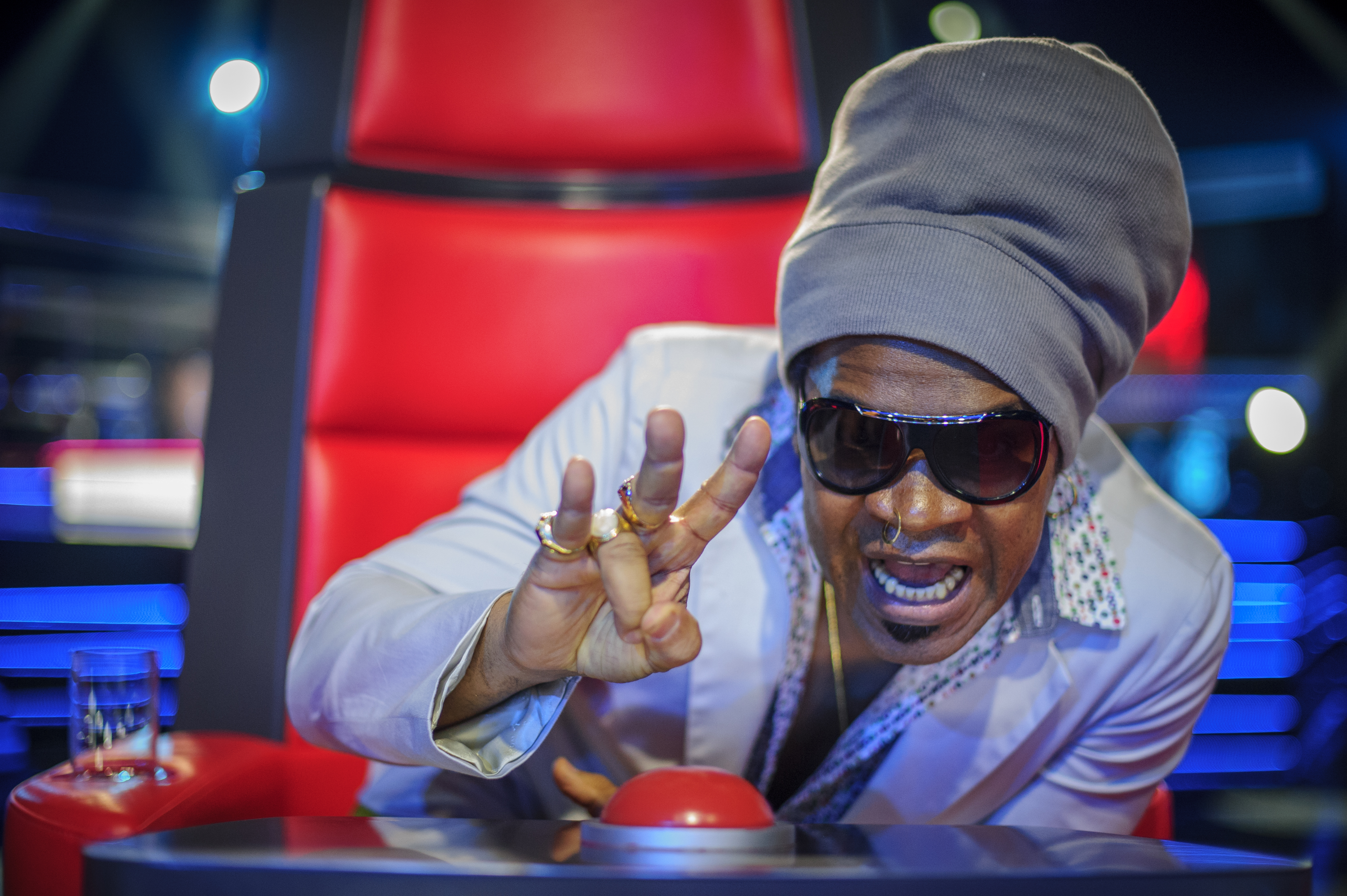 The Voice Brasil 2012